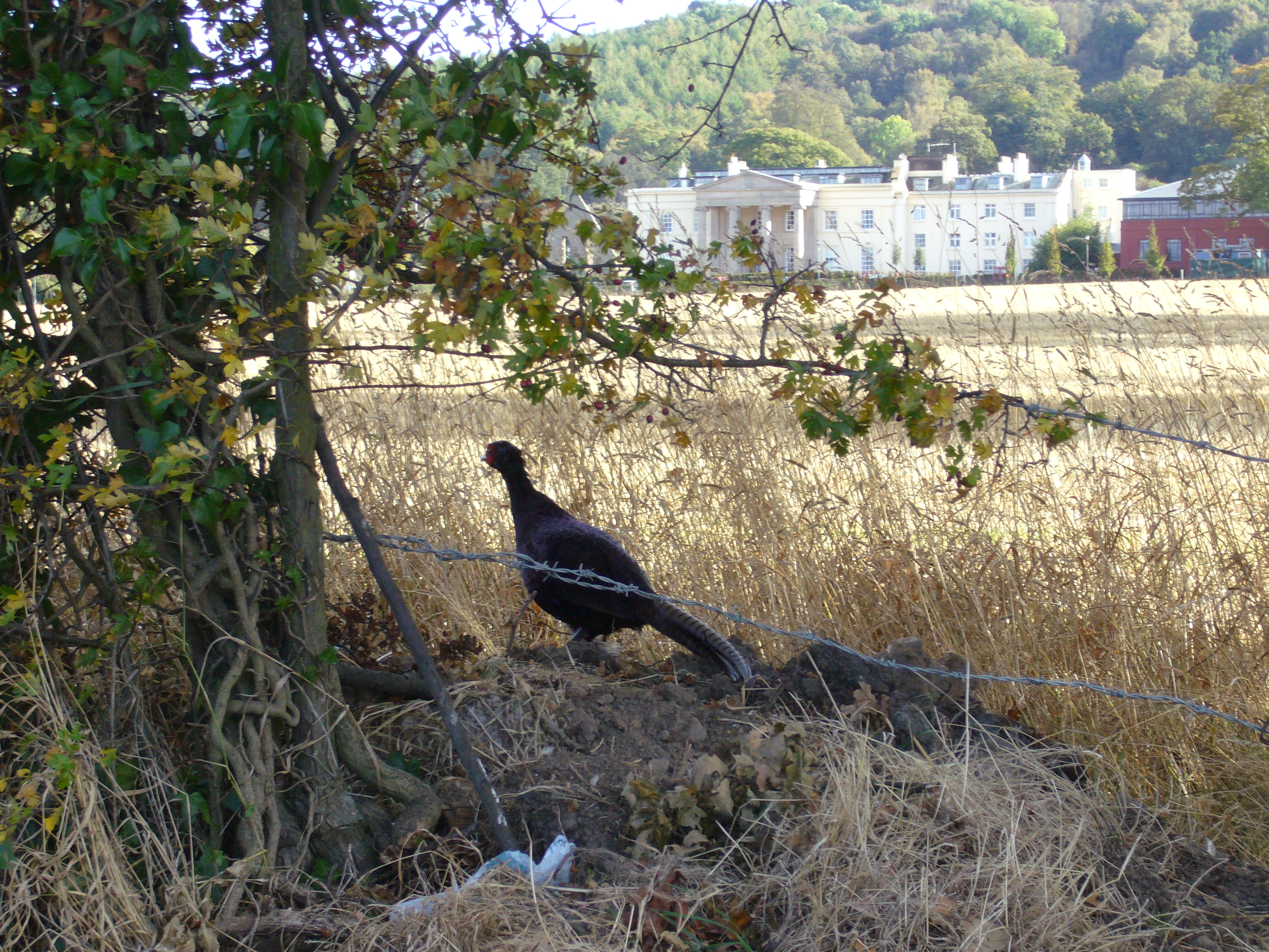 Acton Burnell Hall (now "Concord College"), adjacent to Acton Burnell Castle in Shropshire.